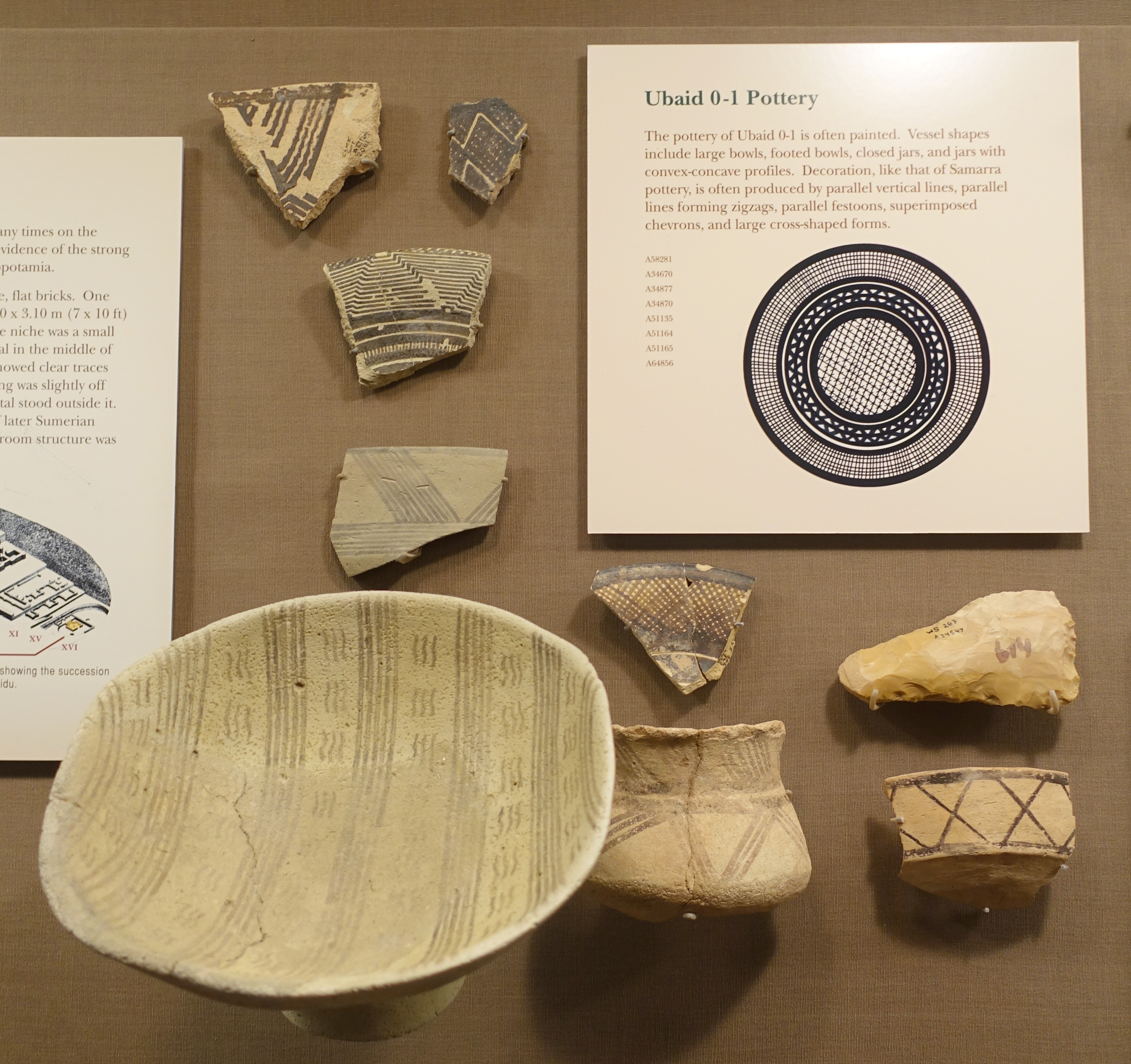 Exhibit in the Oriental Institute Museum, University of Chicago, Chicago, Illinois, USA. This work is old enough so that it is in the public domain.